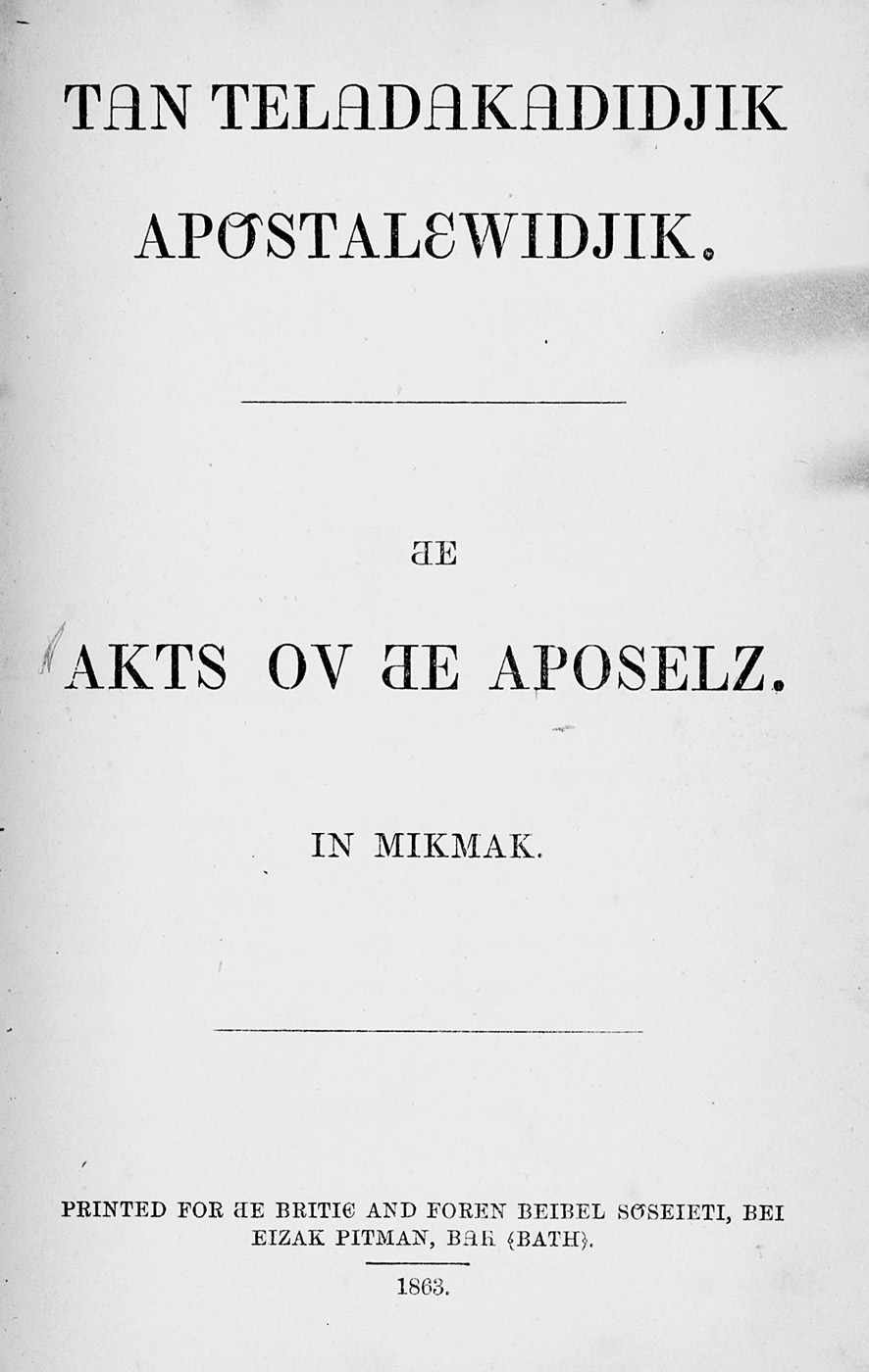 Title page of Tan teladakadidjik apostalewidjik. The Acts of the Apostles in Mikmak. Bath, Bible Society, 1863. Printed in the phonetical alphabet invented by Isaac Pitman